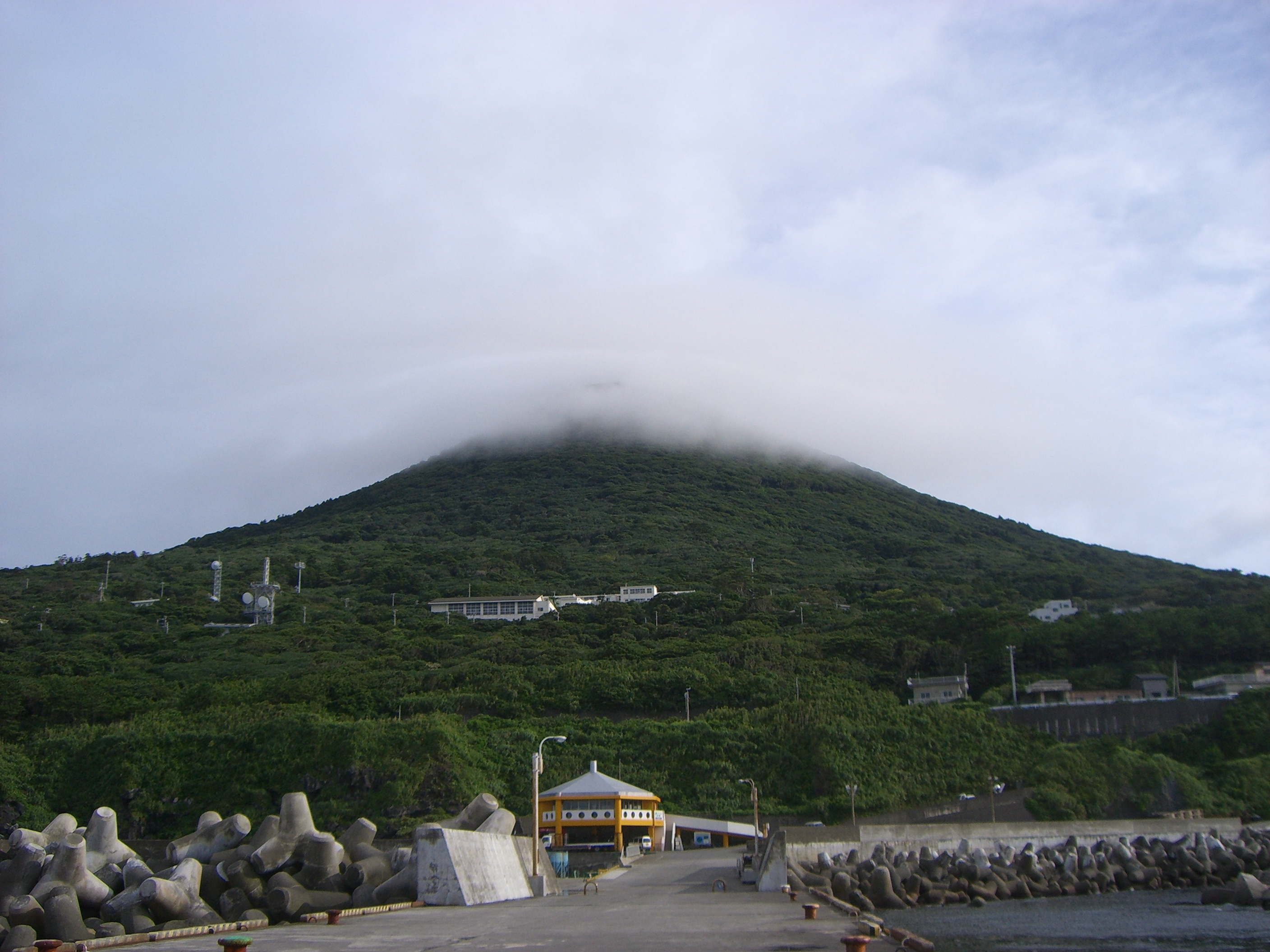 Mt.Miyatsuka ,Toshima